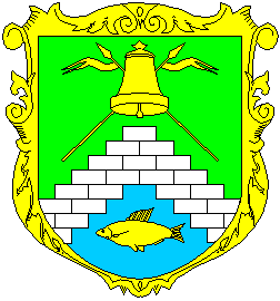 Coat of Arms of Matviivka